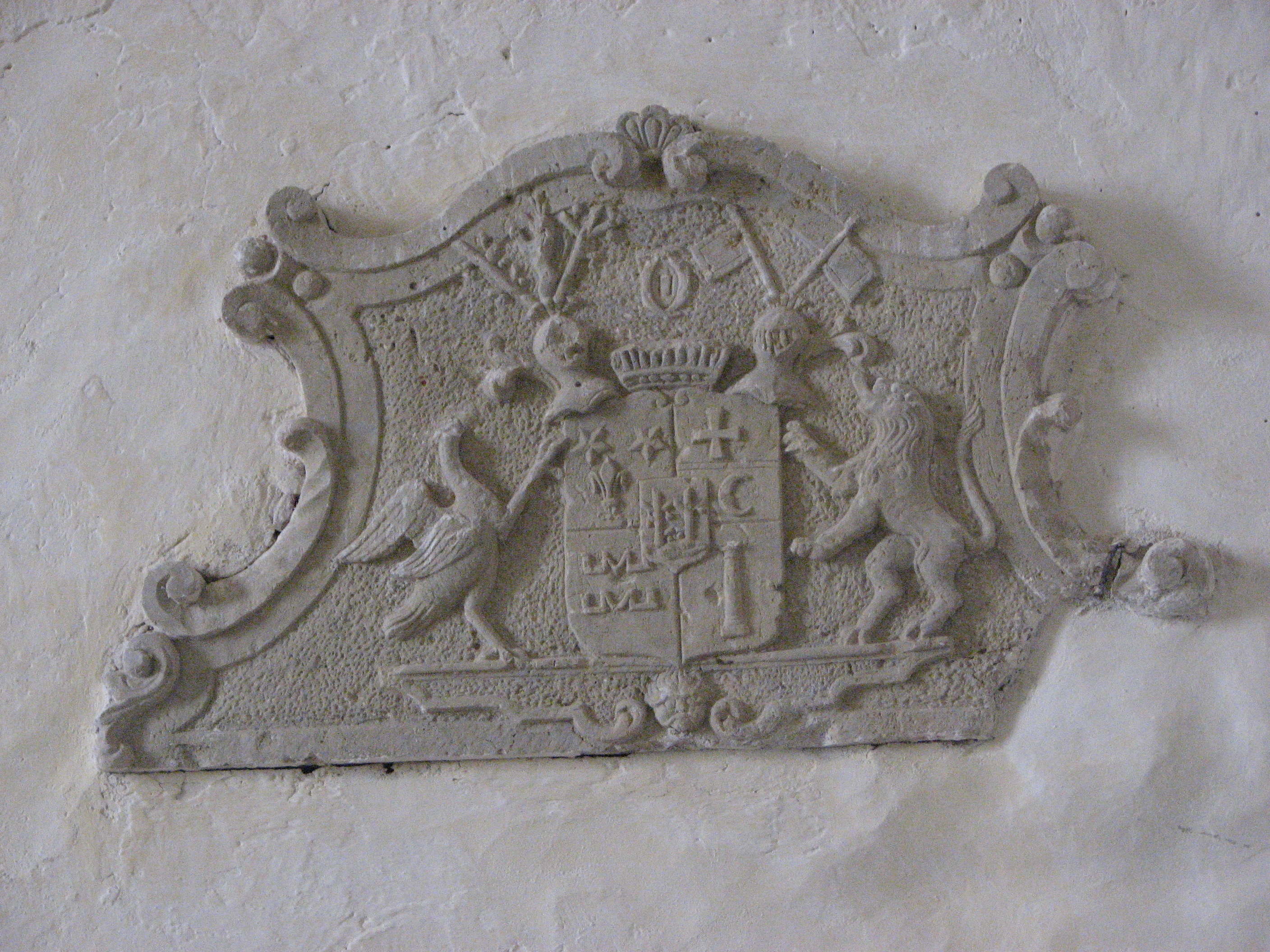 Pöide church, Estonia. Detail on the wall.